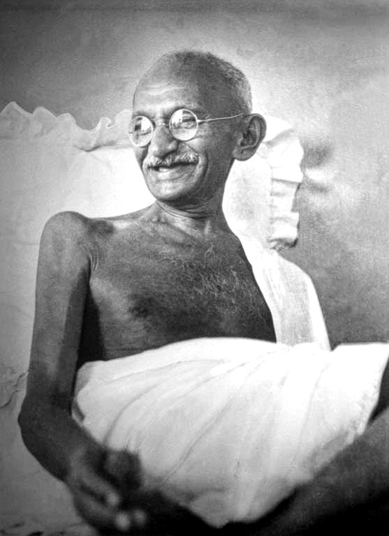 Gandhi smiling at Birla House, Mumbai, August 1942.